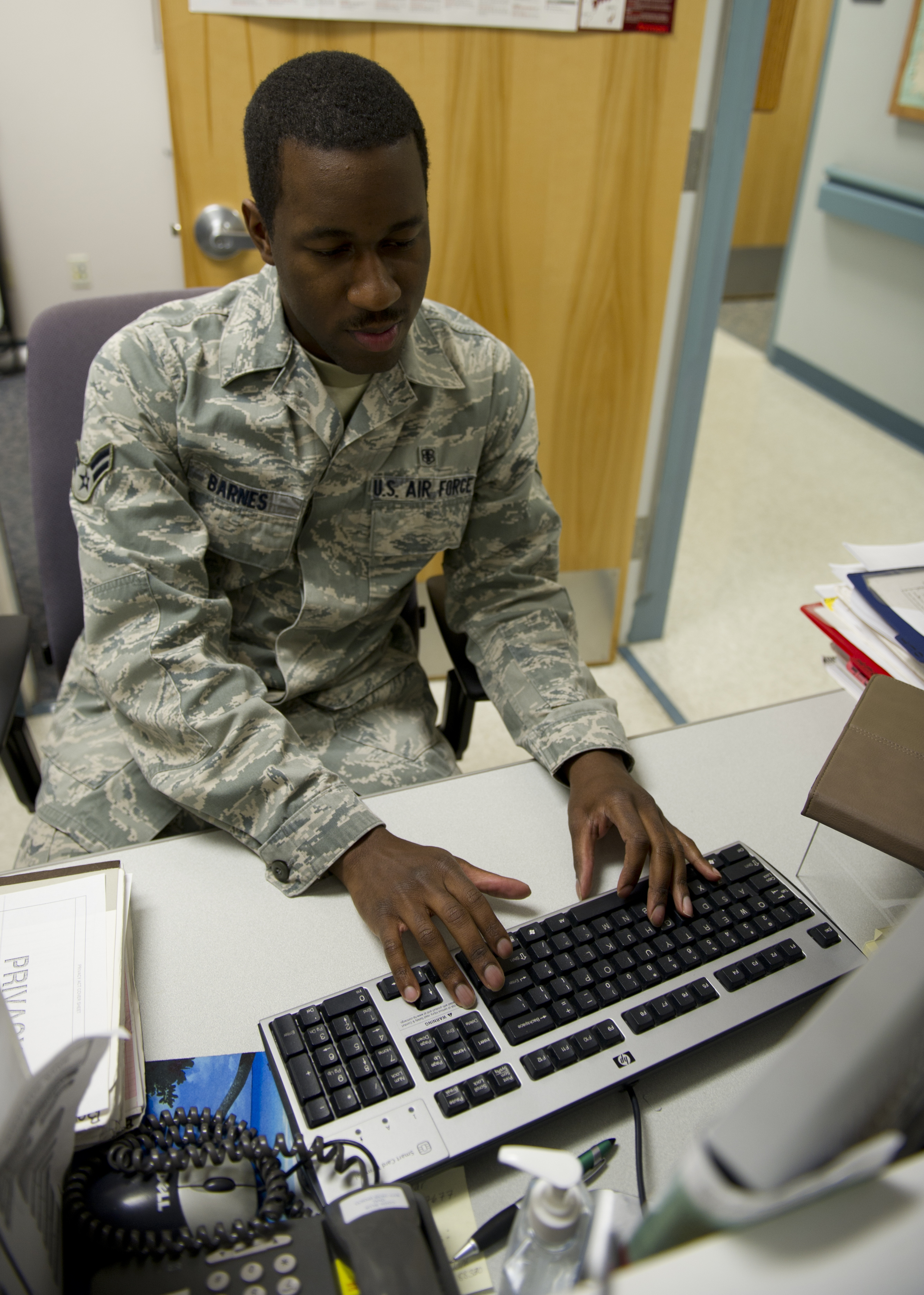 Airman 1st Class Allen Barnes, 49th Medical Support Squadron physical evaluation board liaison officer, enrolls a new patient into Tricare at the medical clinic, March 22. Barnes was awarded the 49th Medical Group Sharp Airman Award for February. The individual's superviser nominates the member then a panel of senior non-commissioned officers looks for the best in job performance, on and off duty education, and fitness.